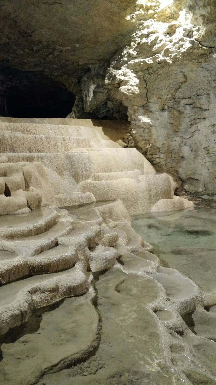 Underground picture in La Balme-les-Grottes (38) France